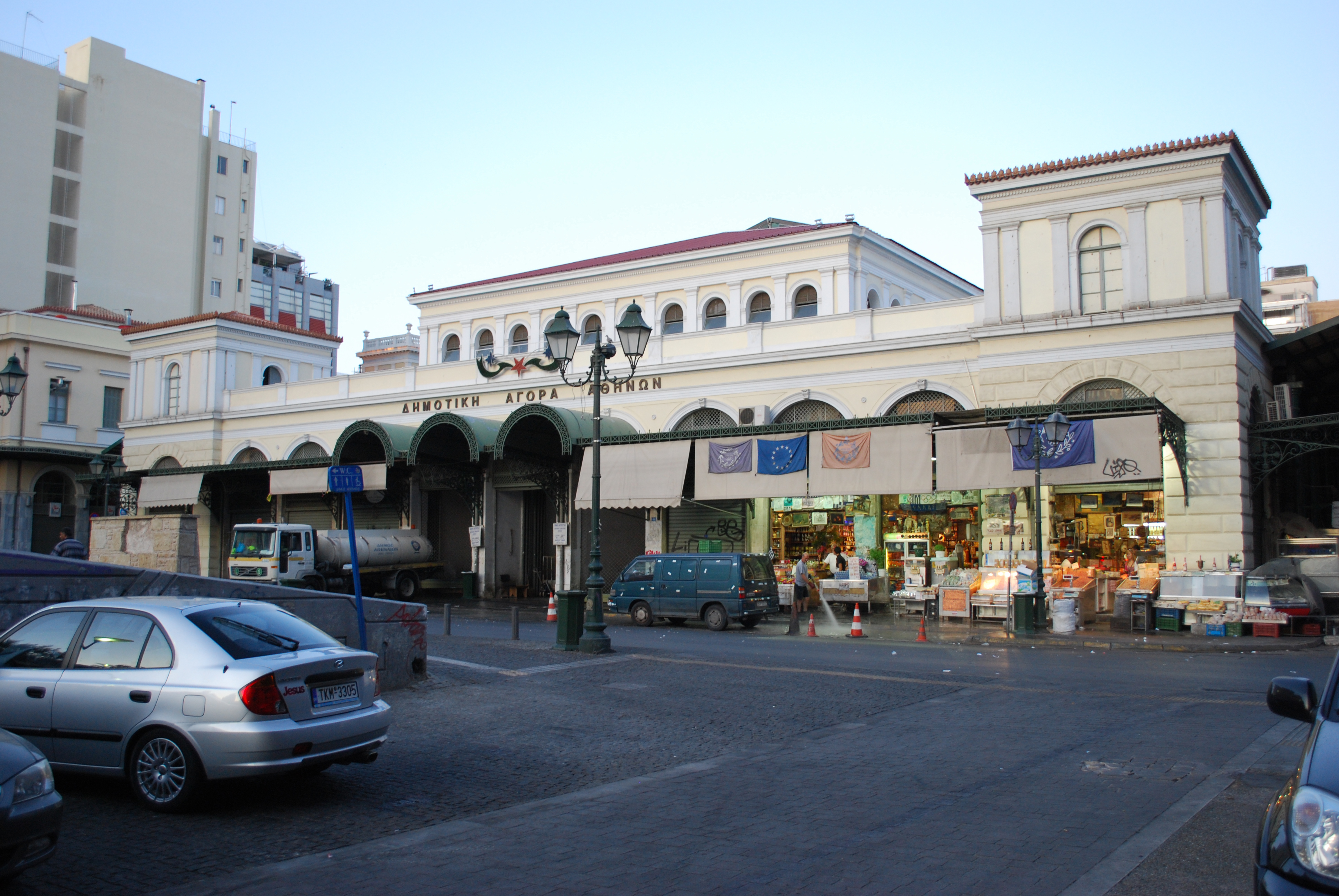 Odos Athinas in Athens.